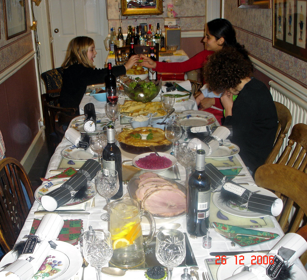 Boxing Day lunch table at Desmond and Glenys' home. Awaiting the arrival of the famished are Rebecca, Raj, and Merrick.